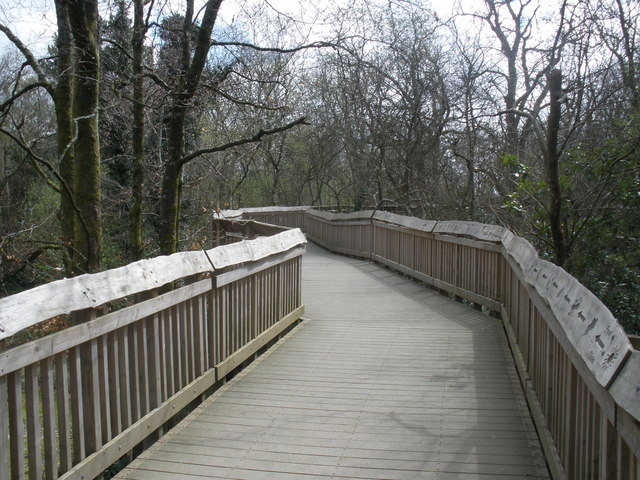 Tree-top boardwalk, at Stover Country Park